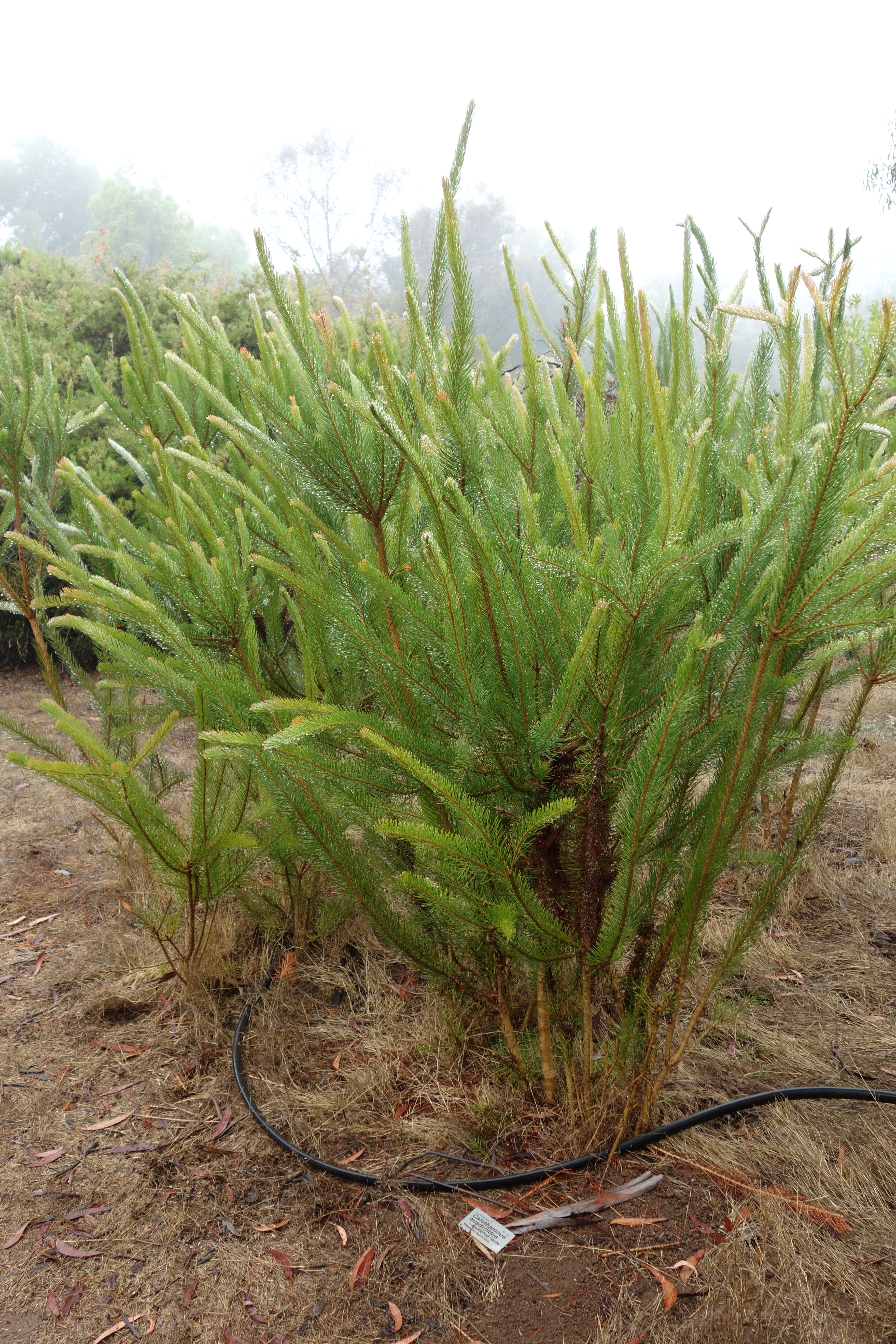 Botanical specimen in the UC Santa Cruz Arboretum at the University of California, Santa Cruz - 1156 High Street, Santa Cruz, California, USA.